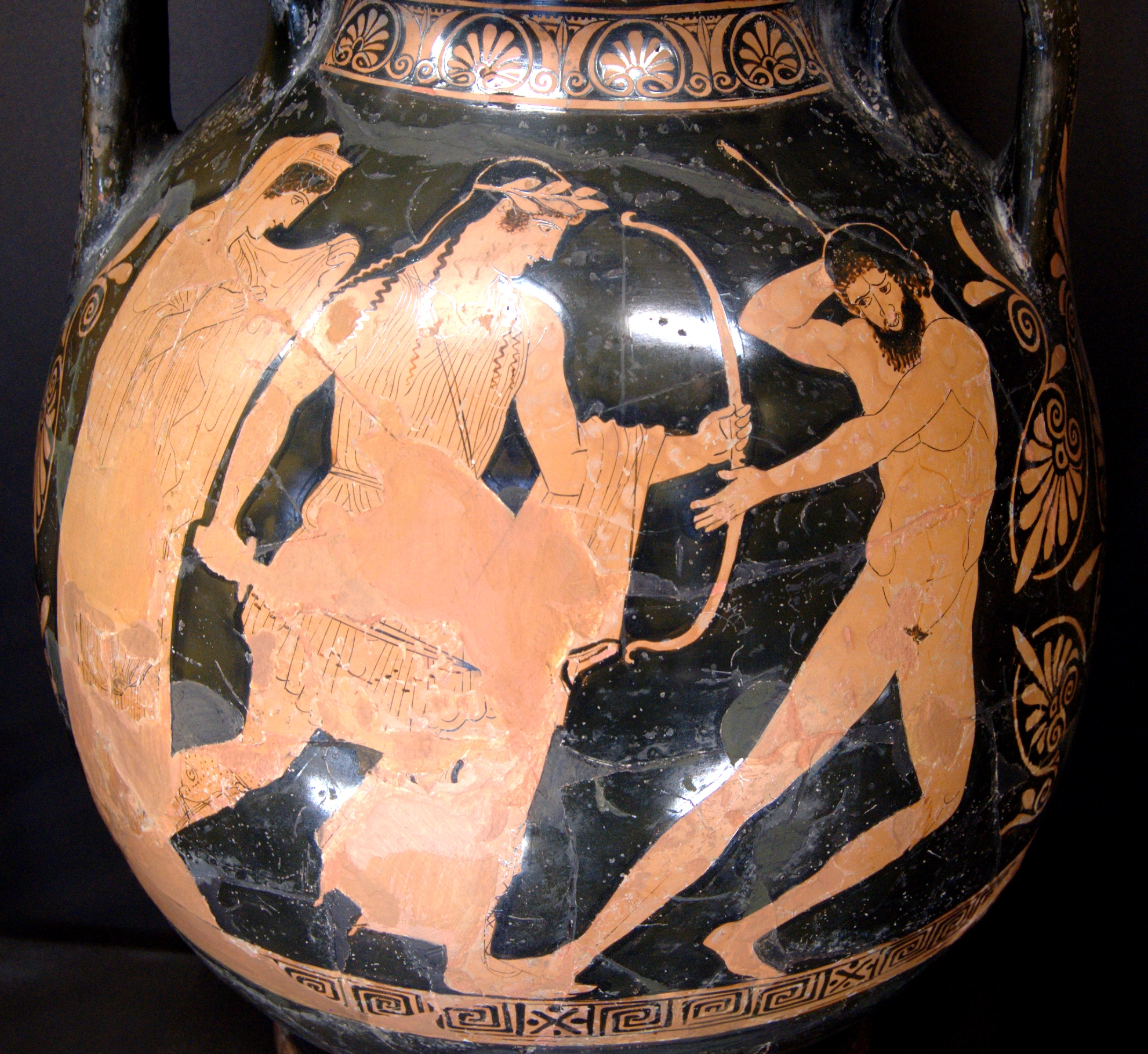 Apollo piercing with his arrows Tityos, who has tried to rape his mother Leto. Side A from an Attic red-figured pelike, ca. 450–440 BC.